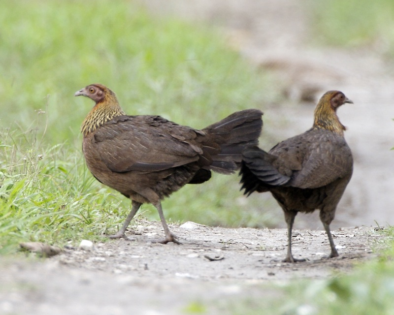 Red Junglefowl Gallus gallus - female. Kaziranga, Assam, India; 15 April 2008.